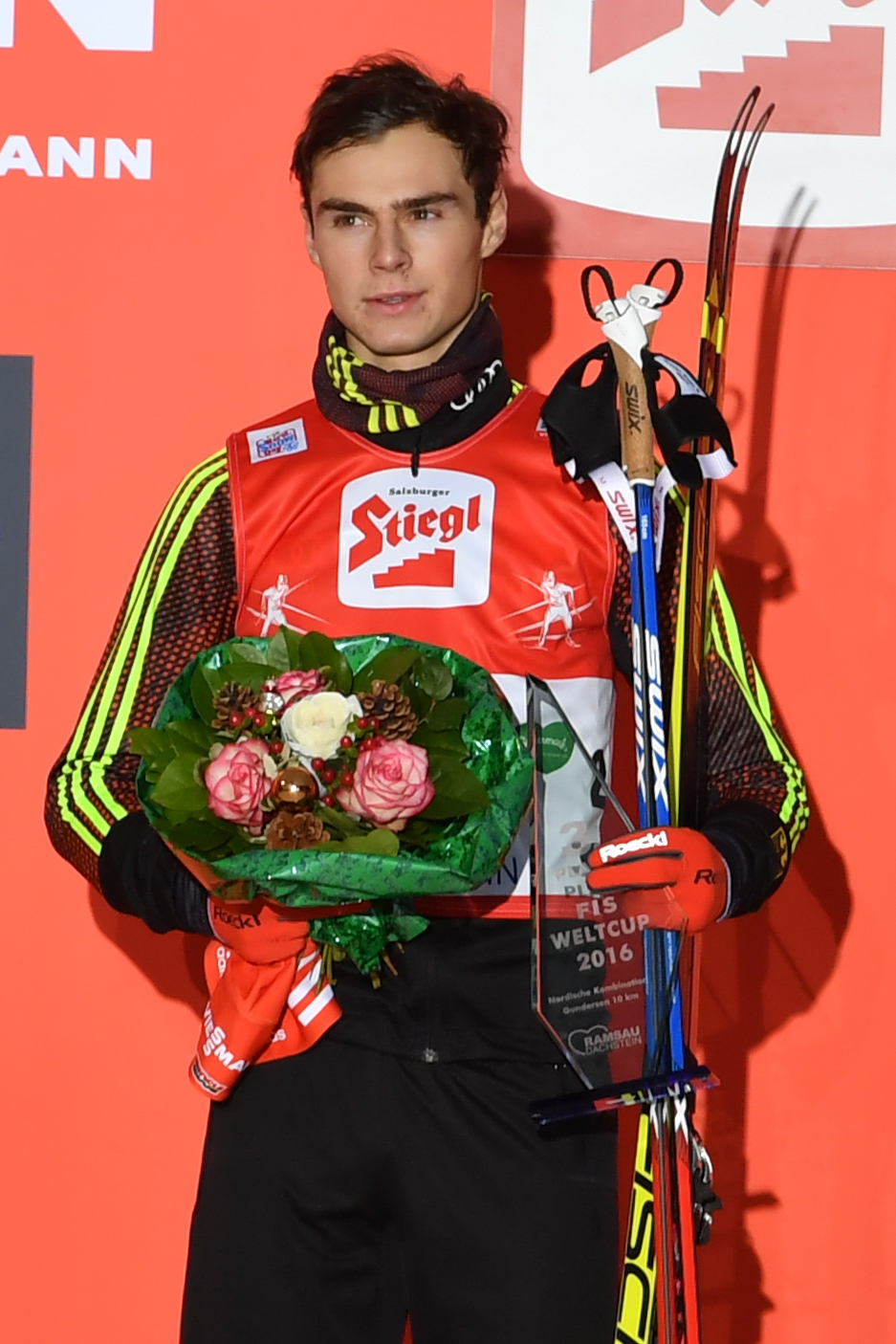 FIS World Cup Nordic Combined, Ramsau/Austria, 2016-12-16 to 2016-12-18.